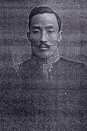 Park Jung-yang, Korean politician, 1941